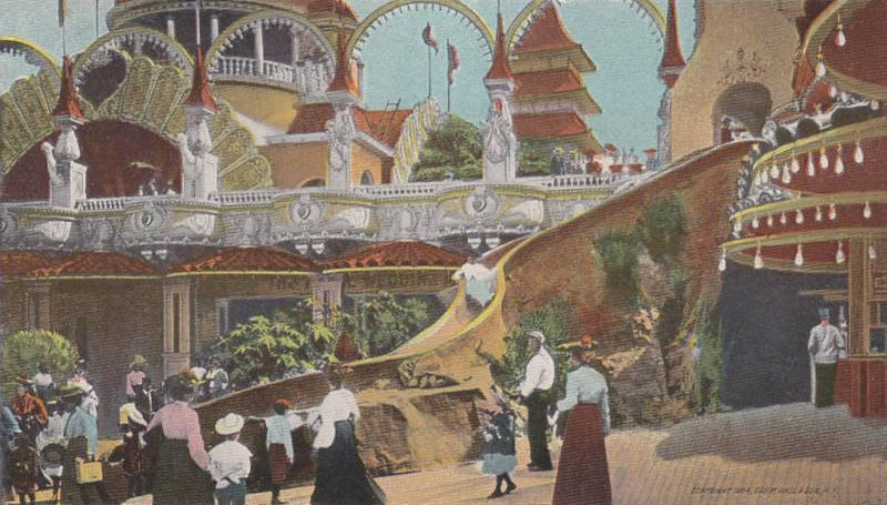 Helter Skelter slide, Luna Park, Coney Island, New York